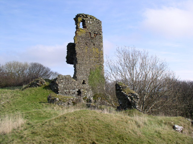 Ardstinchar Castle, Ballantrae Castle first built in 1421, in 1770 stones from the ruined castle were used to build a bridge over the river stinchar